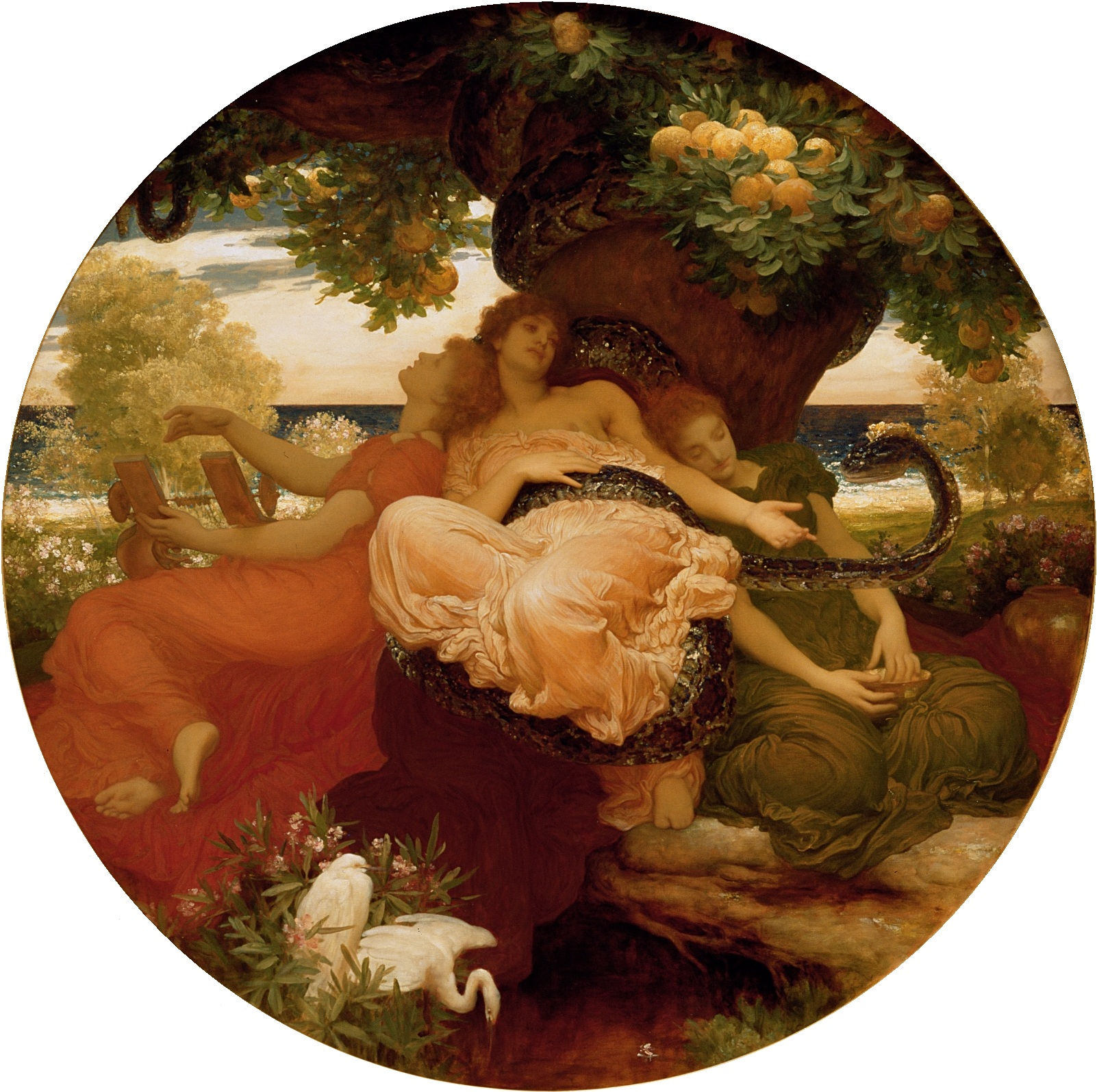 Hesperides were guardians of the tree that produced golden apples, a gift to earth from Hera